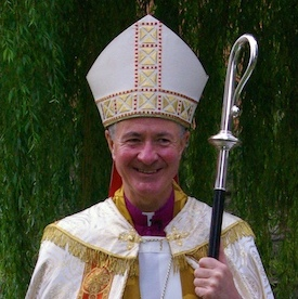 The Bishop at Scenes from the induction service at St Mary's Church, Monmouth, for Rev. David McGladdery, new vicar of Monmouth, Wales, UK, Saturday 29th August 2009. The Bishop of Monmouth Rt. Rev. Dominic Walker and the Archdeacon of Monmouth, the Ven. Richard Pain, presided. August 2009